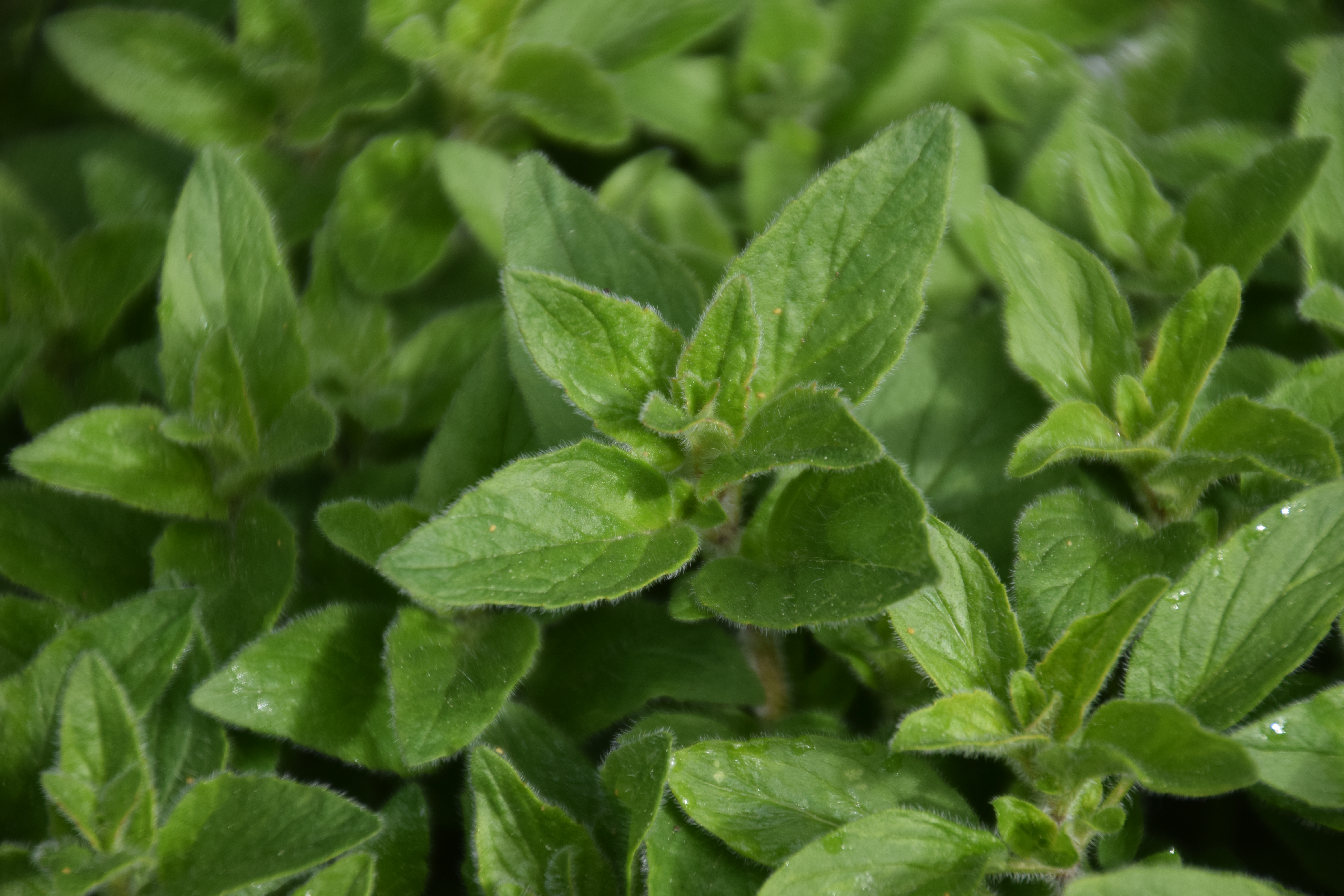 Origanum vulgare in Botanical Garden of Besançon